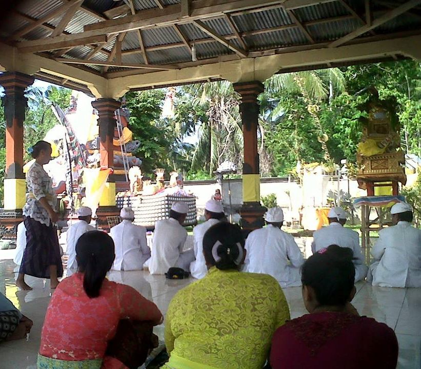 Hinduism Ceremony in Pura Agung Narayana, Poso Regency.